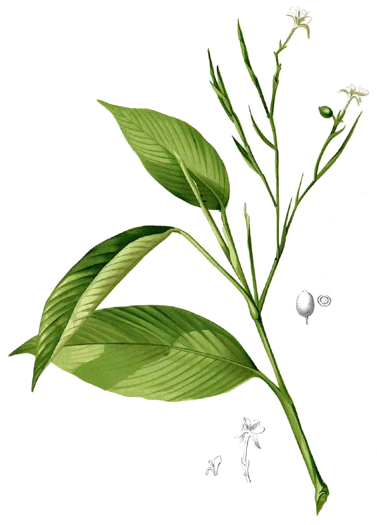 Plate from book